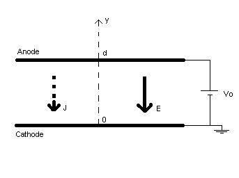 The vacuum diode physics